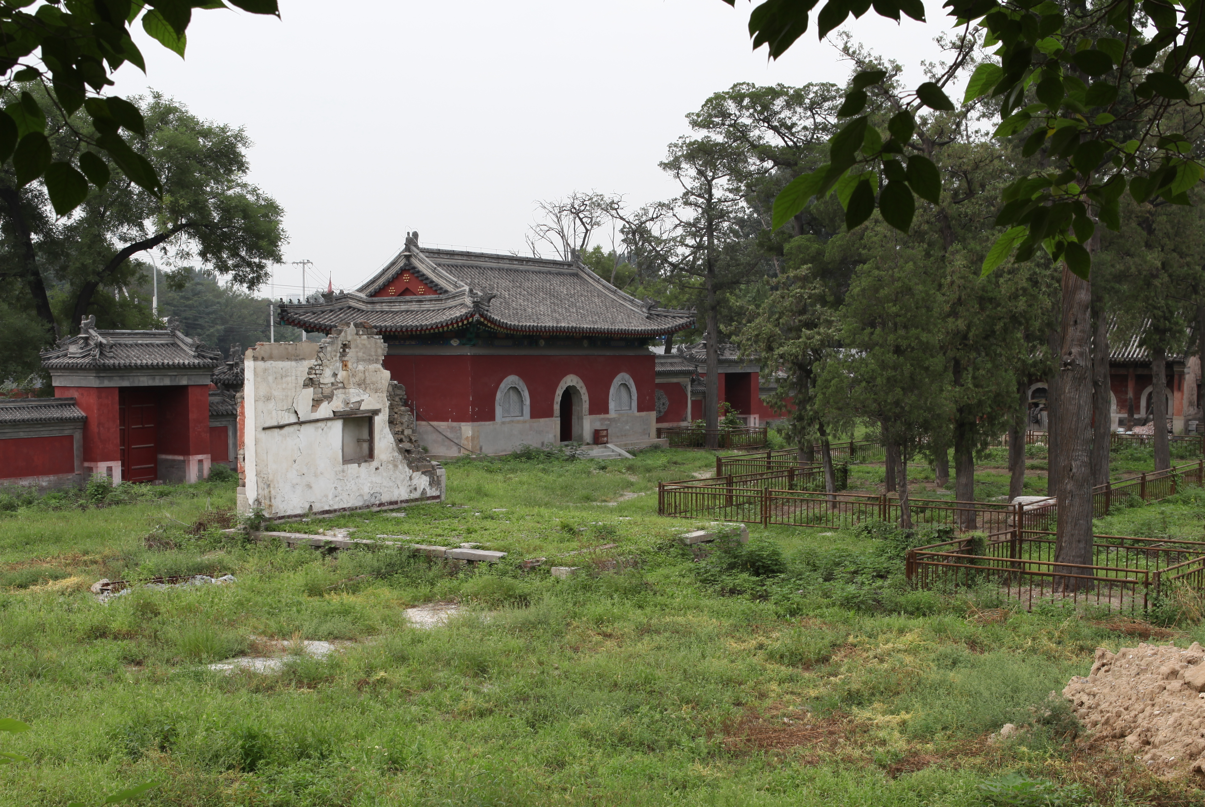 North side of Gate of Zheng Jue Temple — on the grounds of the Yunamingyuan (Old Summer Palace) — in Beijing. This photo shows the temple is under repair and reconstruction.